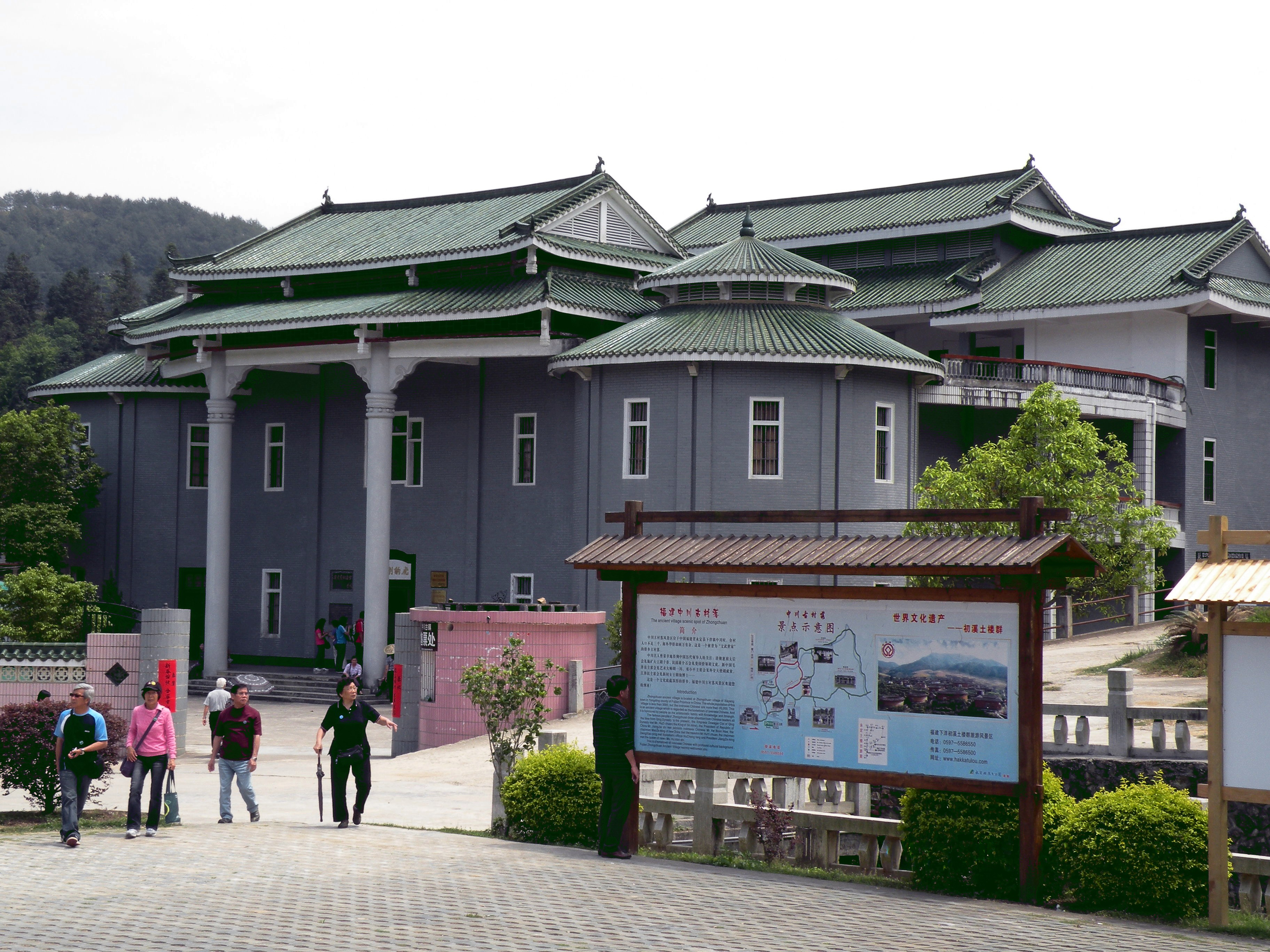 Haw Par Villa in Fujian Province, China 中文（香港）: 中國福建省虎豹別墅